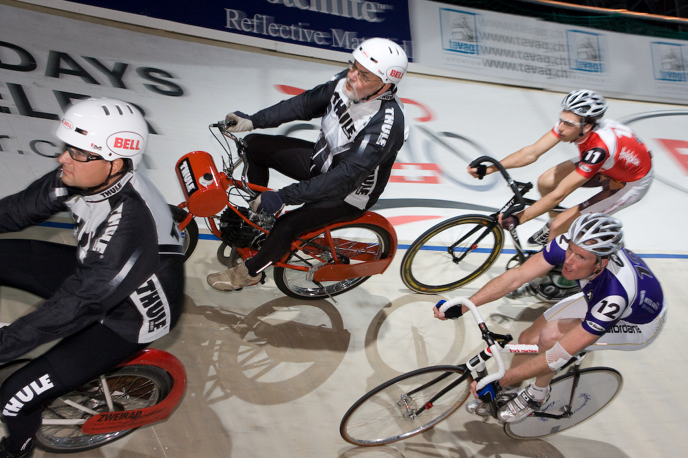 Grégory Rast, Sixdays Zürich 2007-2008